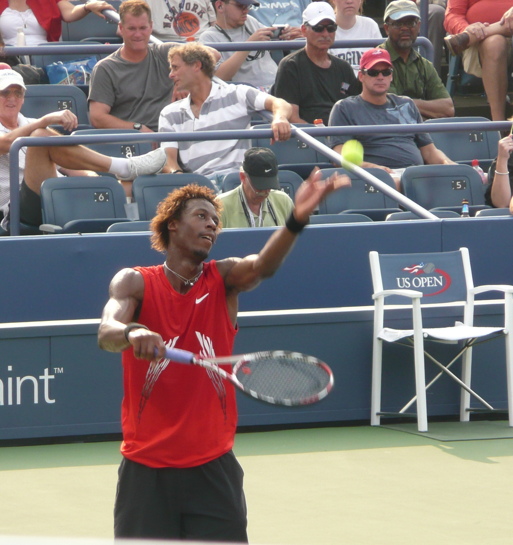 Gael Monfils serving to David Nalbandian at the 2008 US Open